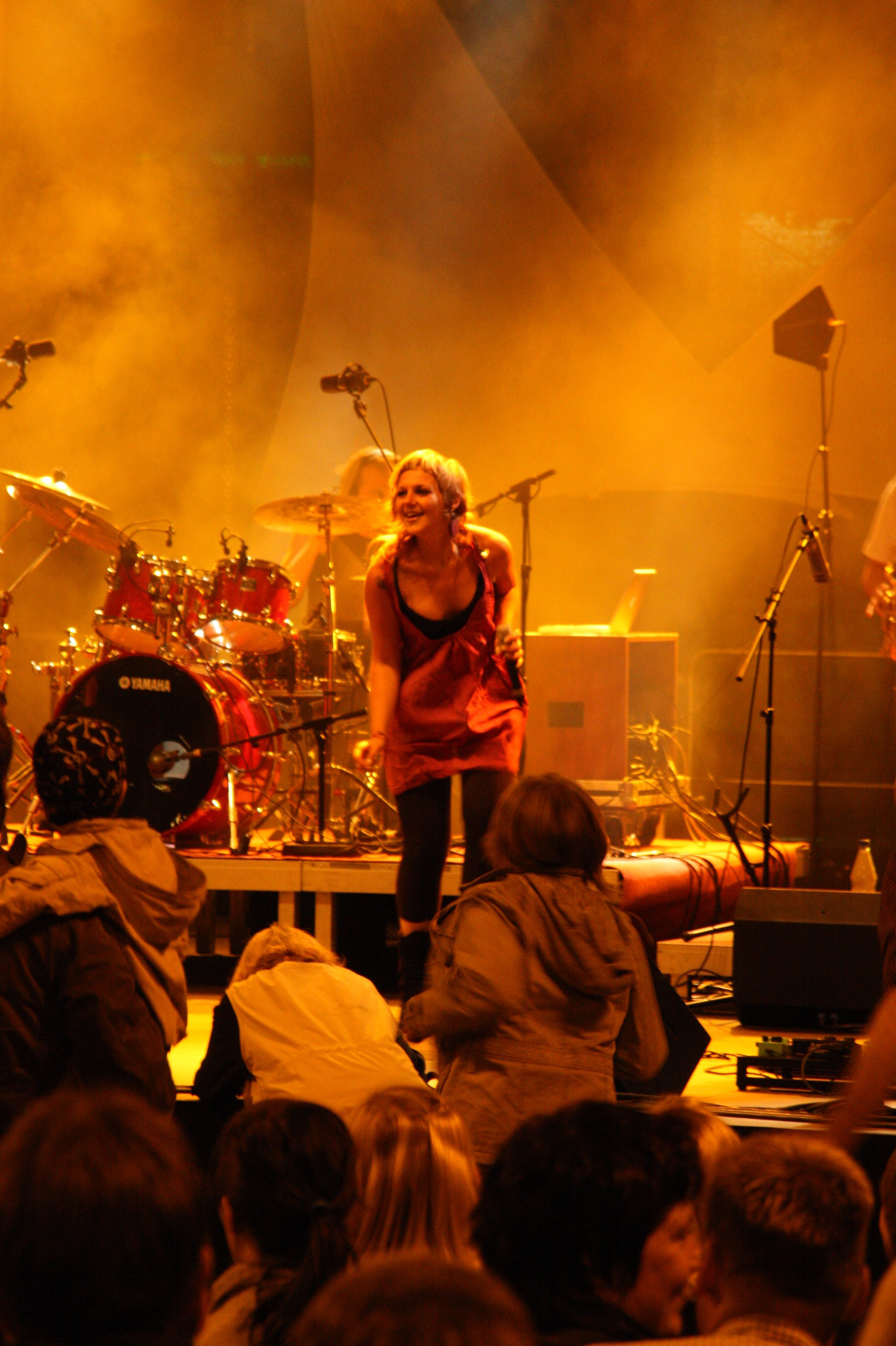 Maya, lead singer of Italian folk-rock band Riserva Moac at the 2009 Micro!Festival in Dortmund.